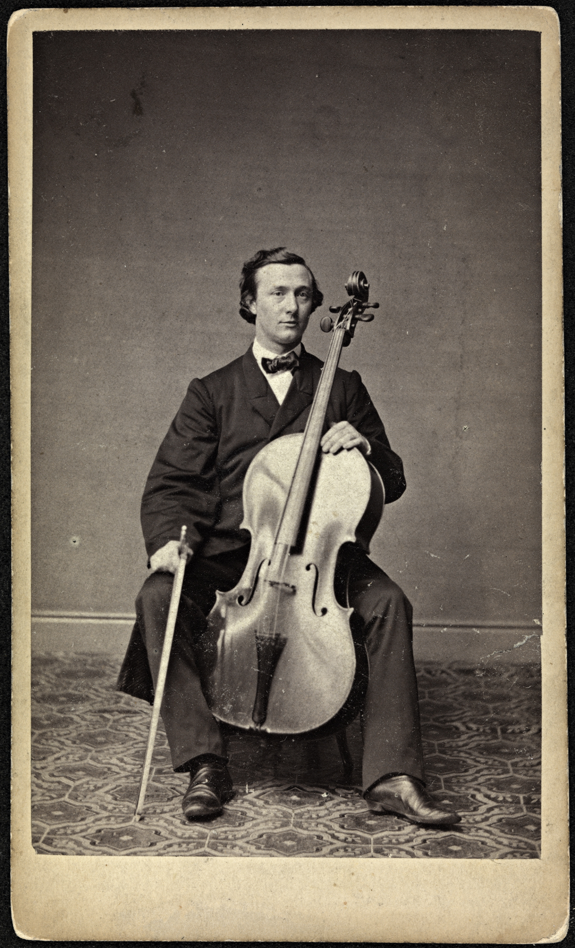 Tittel / Title: Portrett av Johan Hennum (1836-1894) Motiv / Motif: Visittkort / Carte de visite. Hennum var dirigent og cellist. Dato / Date: ukjent / unknown Fotograf / Photographer: Claus Knudsen (Christiania) Sted / Place: Oslo Eier / Owner Institution: Nasjonalbiblioteket / National Library of Norway Lenke / Link: Bildesignatur / Image Number: blds_05047